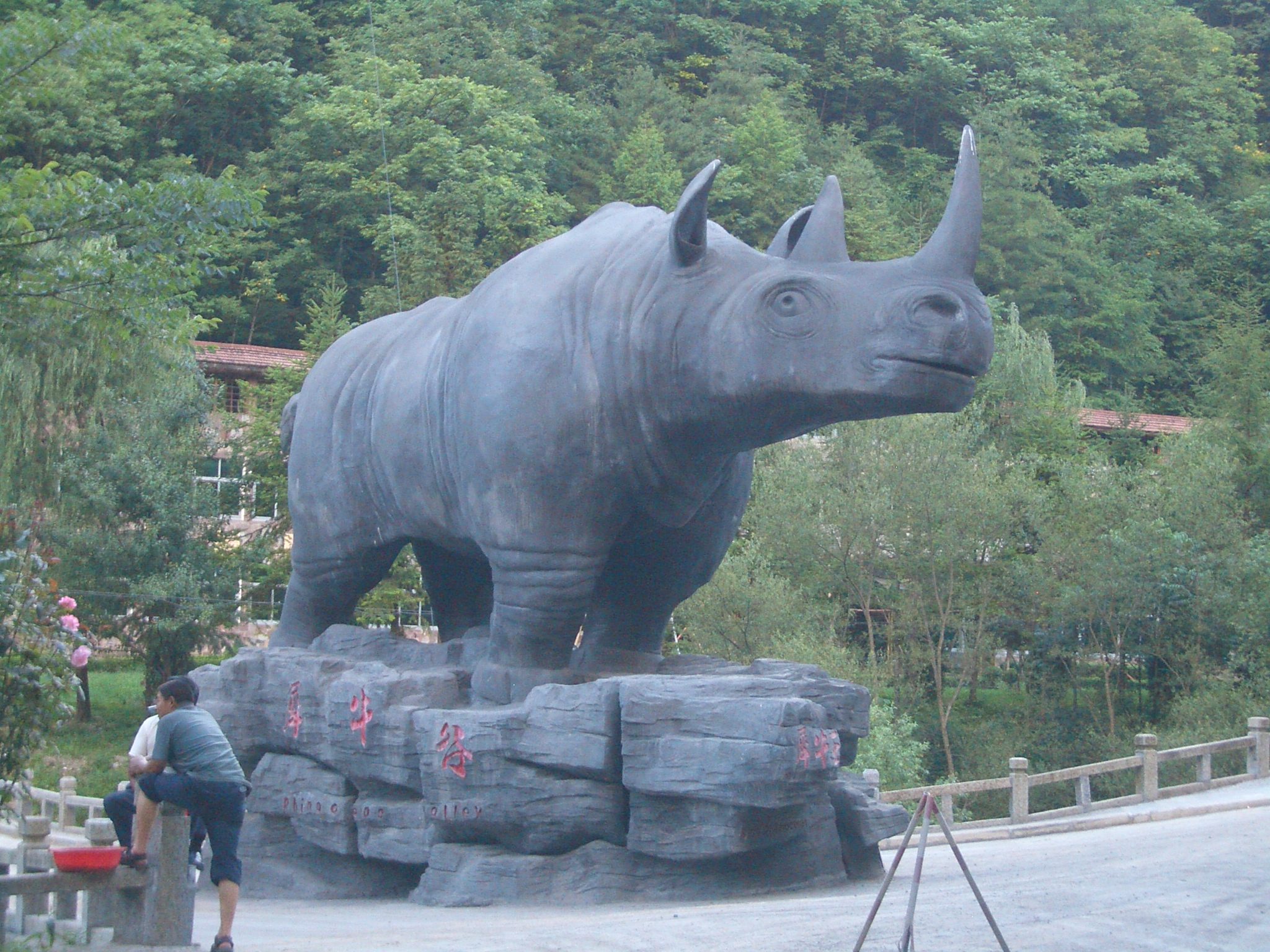 One of the rhinoceri welcoming the visitors to Hongping Town, Shennongia Forestry District. The area on the north side of the town has been proclaimed "Rhinoceros Valley" (Xiniu Gu) in honor of the prehistoric rhinoceros fossils found in a cave nearby.